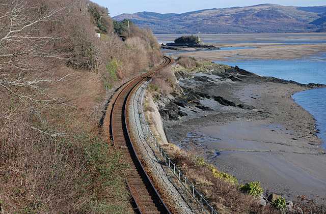 The Cambrian coast line east of Penhelig